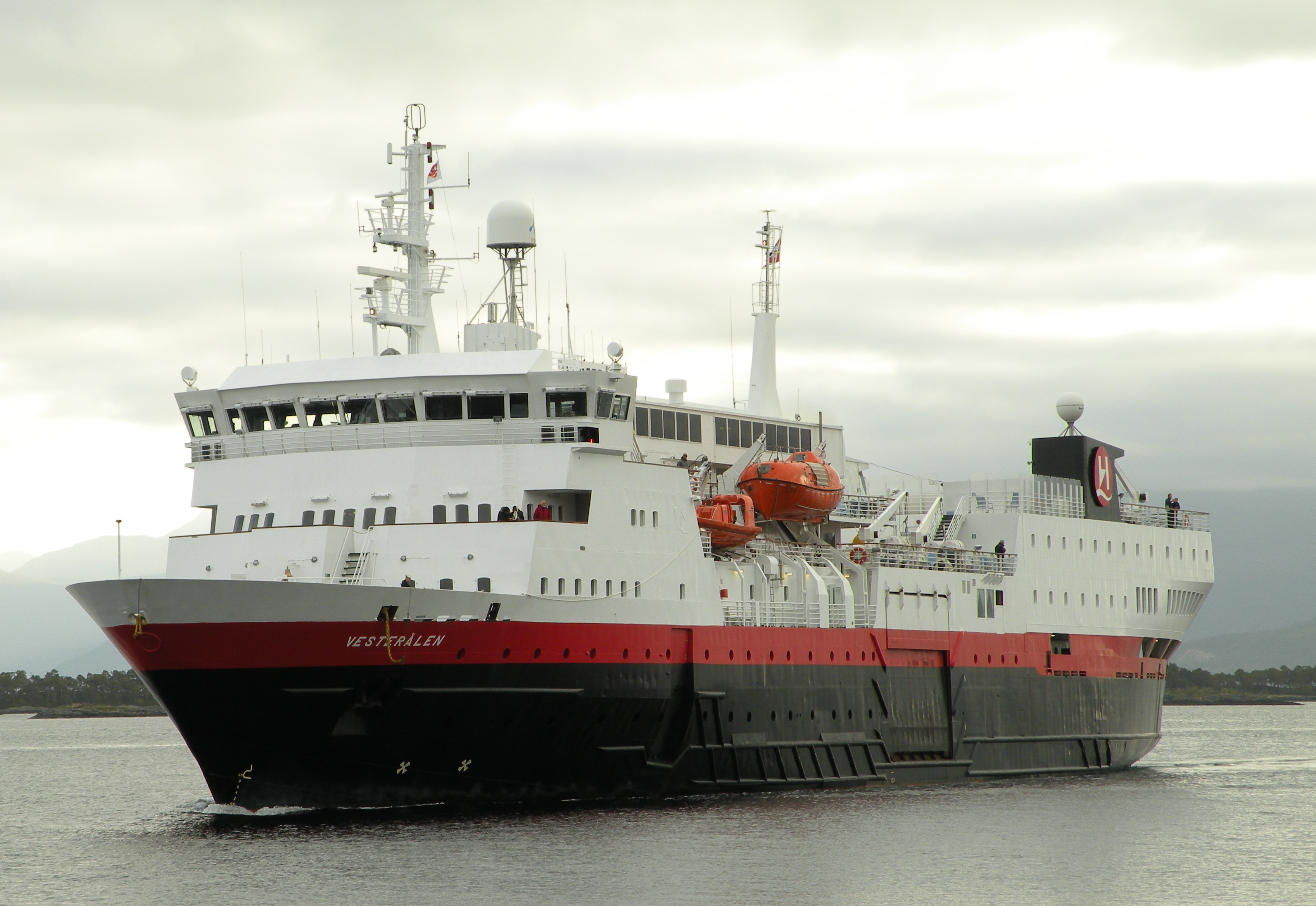 Norwegian coastal express ship (Hurtigruten) MS Vesterålen arrives in Molde